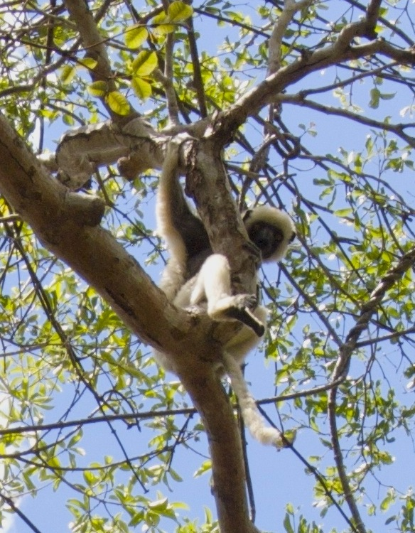 Von der Decken's Sifaka in Tsingy de Namoroka, Madagascar.